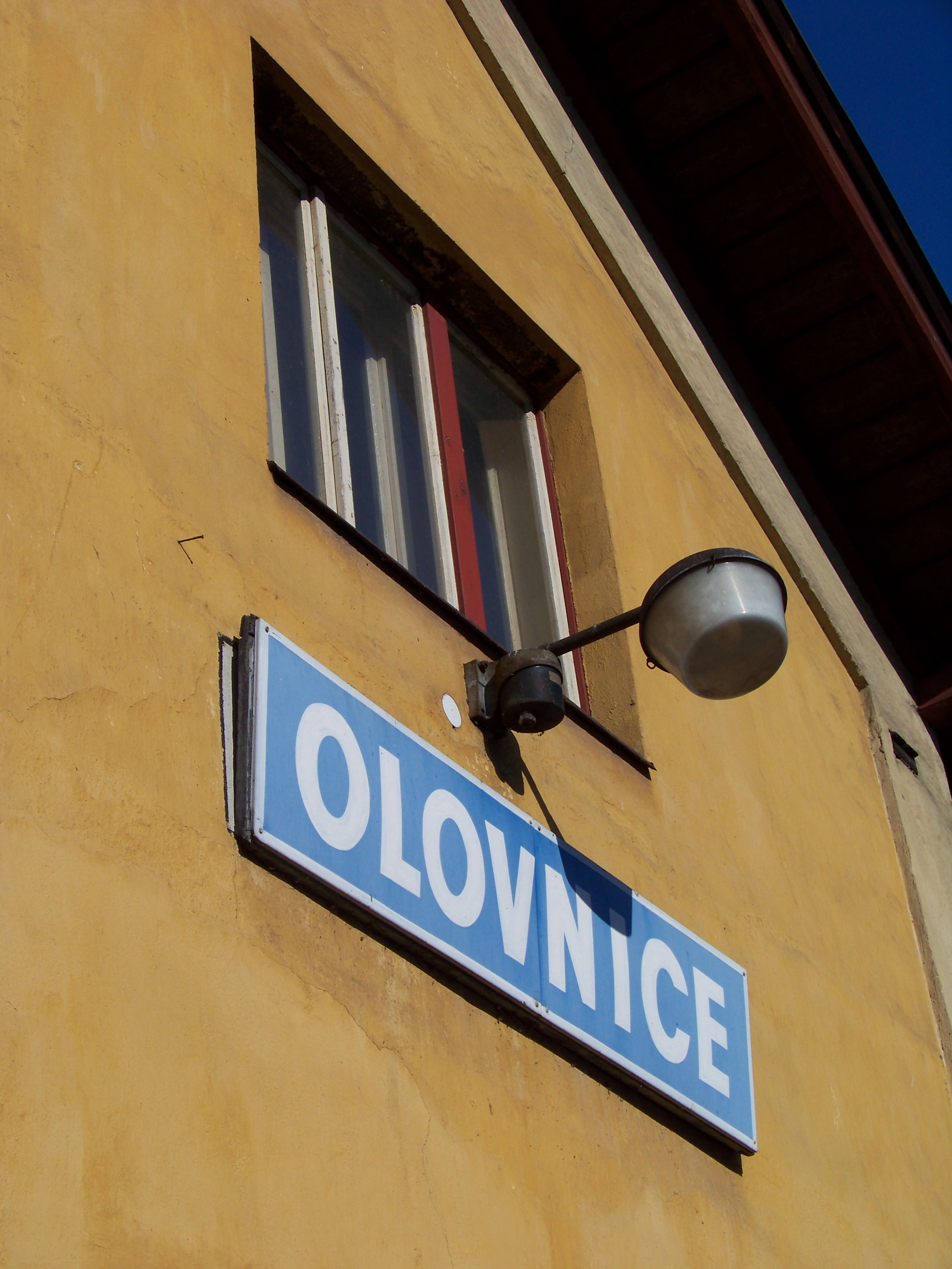 Olovnice, Mělník District, Central Bohemian Region, the Czech Republic. The train station.